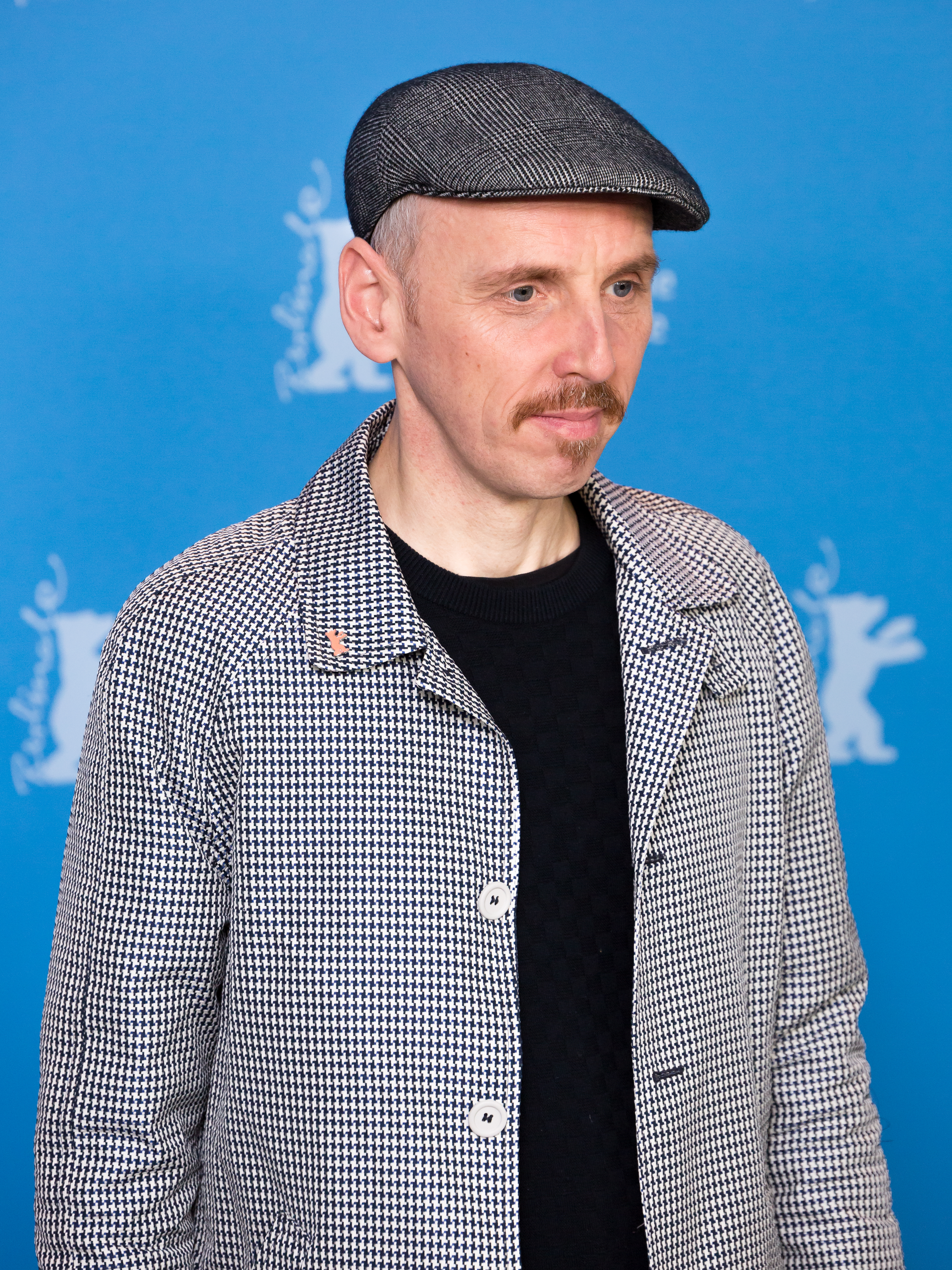 Ewen Bremner at the opening night of T2 Trainspotting, Berlinale 2017